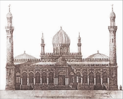 Plan of restoration of Shamakhi mosque